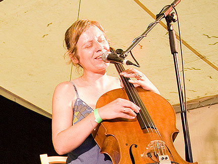 Tara Fuki - Dorota Barová on the: Svátek čaje (EU - Těšín).